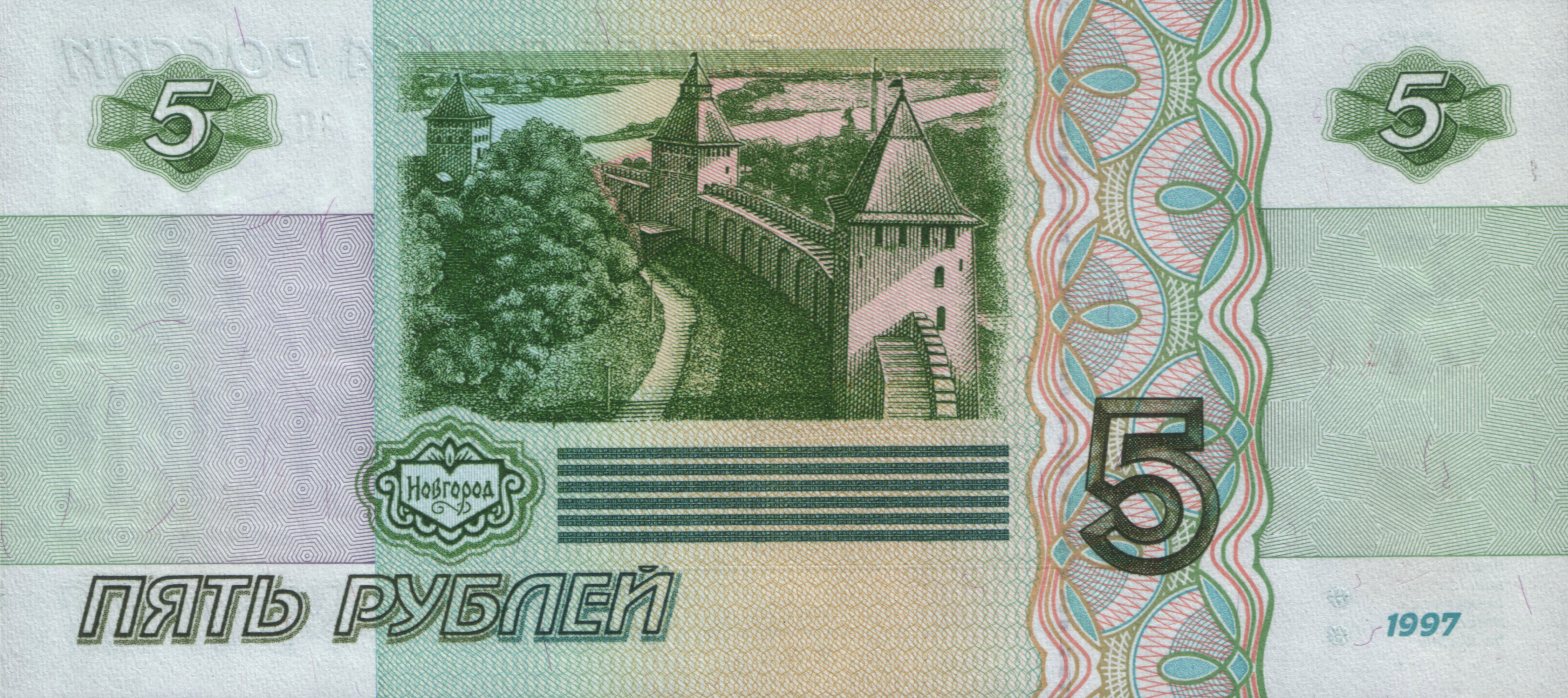 Russian banknote. 5 rubles. Version of 1997 year. Back